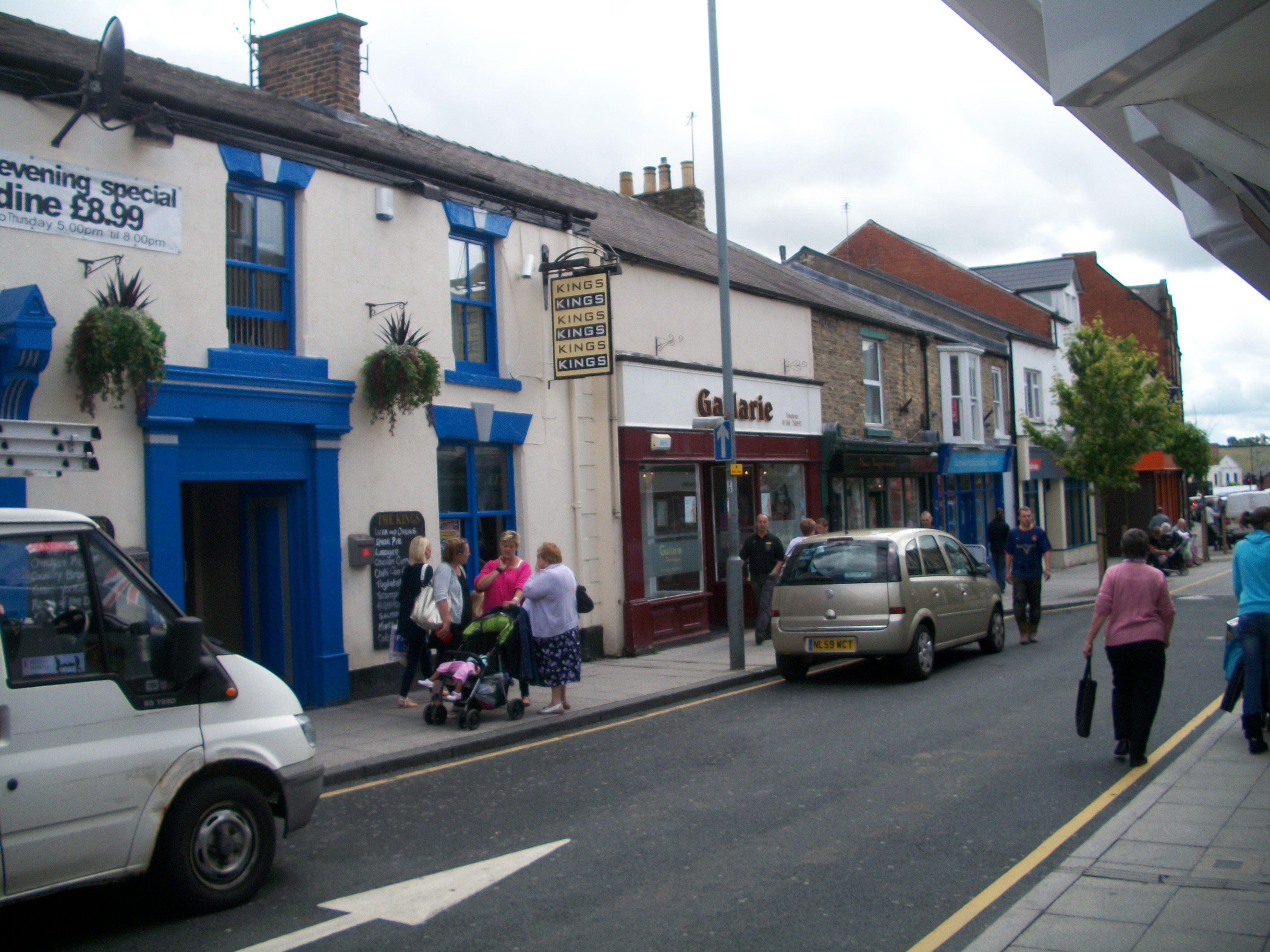 A view of Hope Street, the main shopping street in Crook, Co. Durham